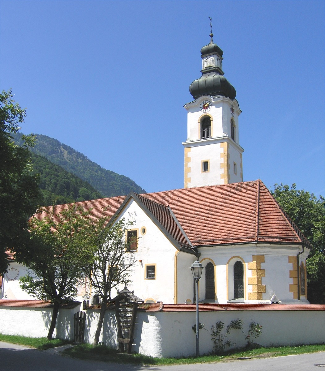 Niederaudorf, view of Saint Michael's Parish Church from south-east.